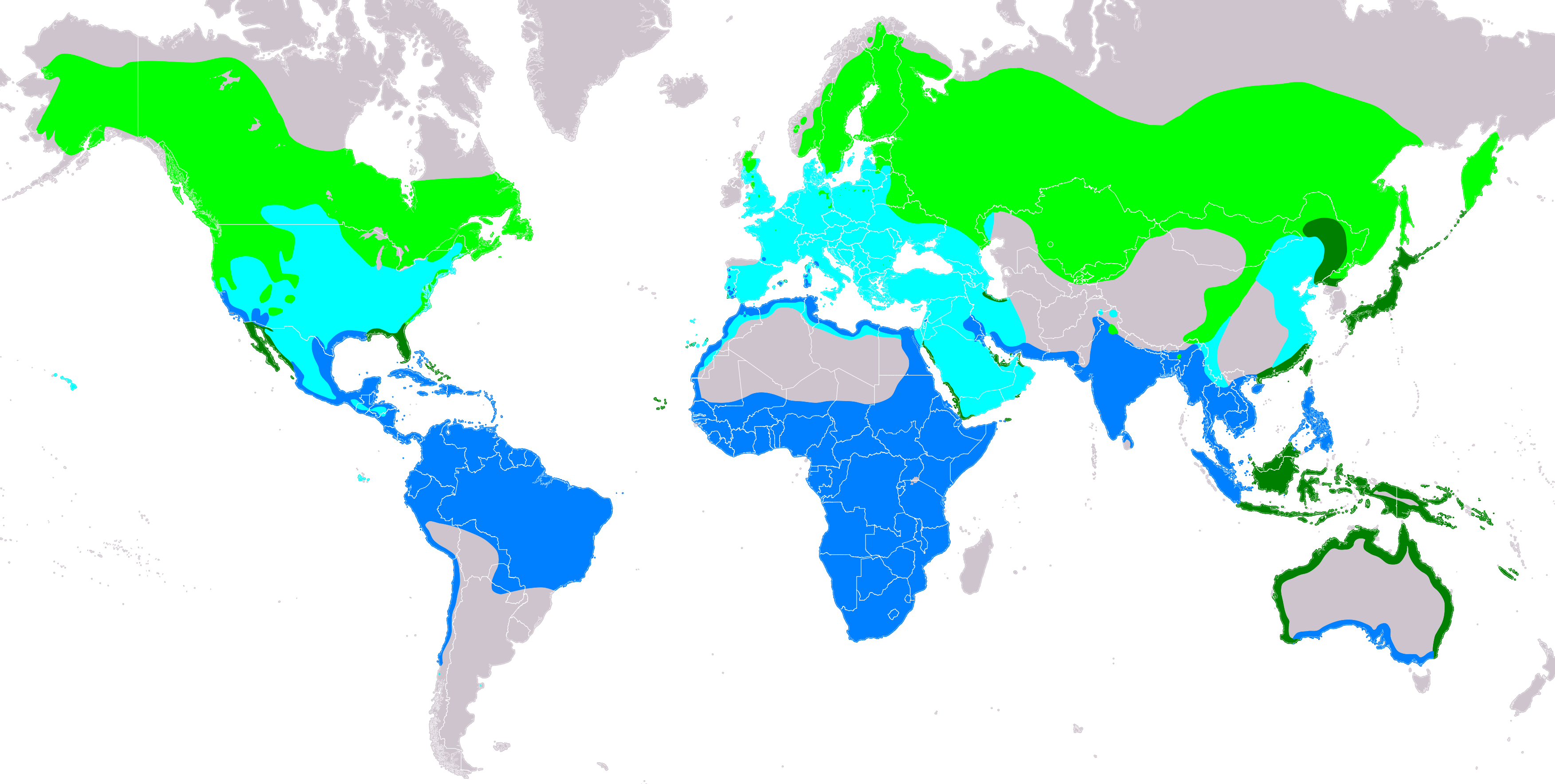 Distribution map of Osprey (Pandion haliaetus) according to IUCN version 2019.3; key: Legend: Extant, breeding (#00FF00), Extant, resident (#008000), Extant, passage (#00FFFF), Extant, non-breeding (#007FFF)